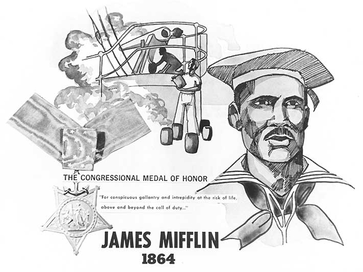 United States Navy poster photographed in 1970. Engineer's Cook James Mifflin received the Medal of Honor for remaining steadfast at his post on USS Brooklyn while enemy shells cleared his shipmates at the Battle of Mobile Bay, Alabama on 5 August 1864, which helped to result in damage at Fort Morgan and the surrender of CSS Tennessee.